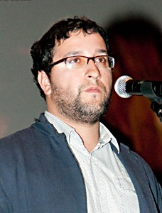 Russian director Alexander Kott. At the «Brest Fortress» premiere in Moscow, November 3, 2010.